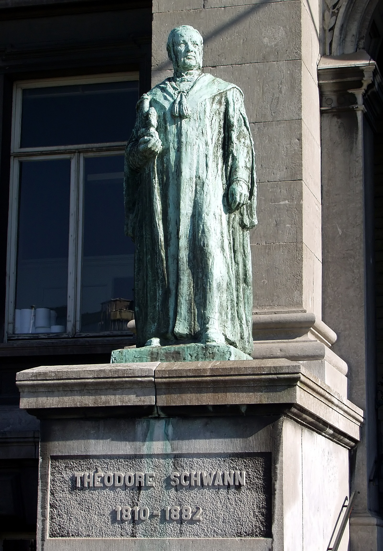 Statue of Theodor Schwann in front of the “Institut de zoologie de Liège”, Belgium